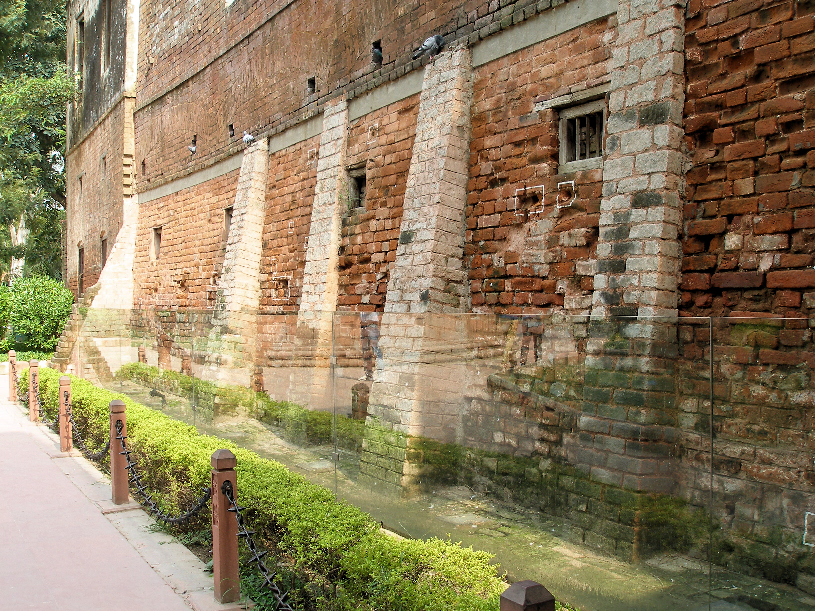 Bullet-marked wall at Jallianwala Bagh, Amritsar, India